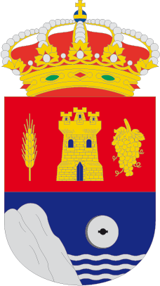 Fuentemolinos seal